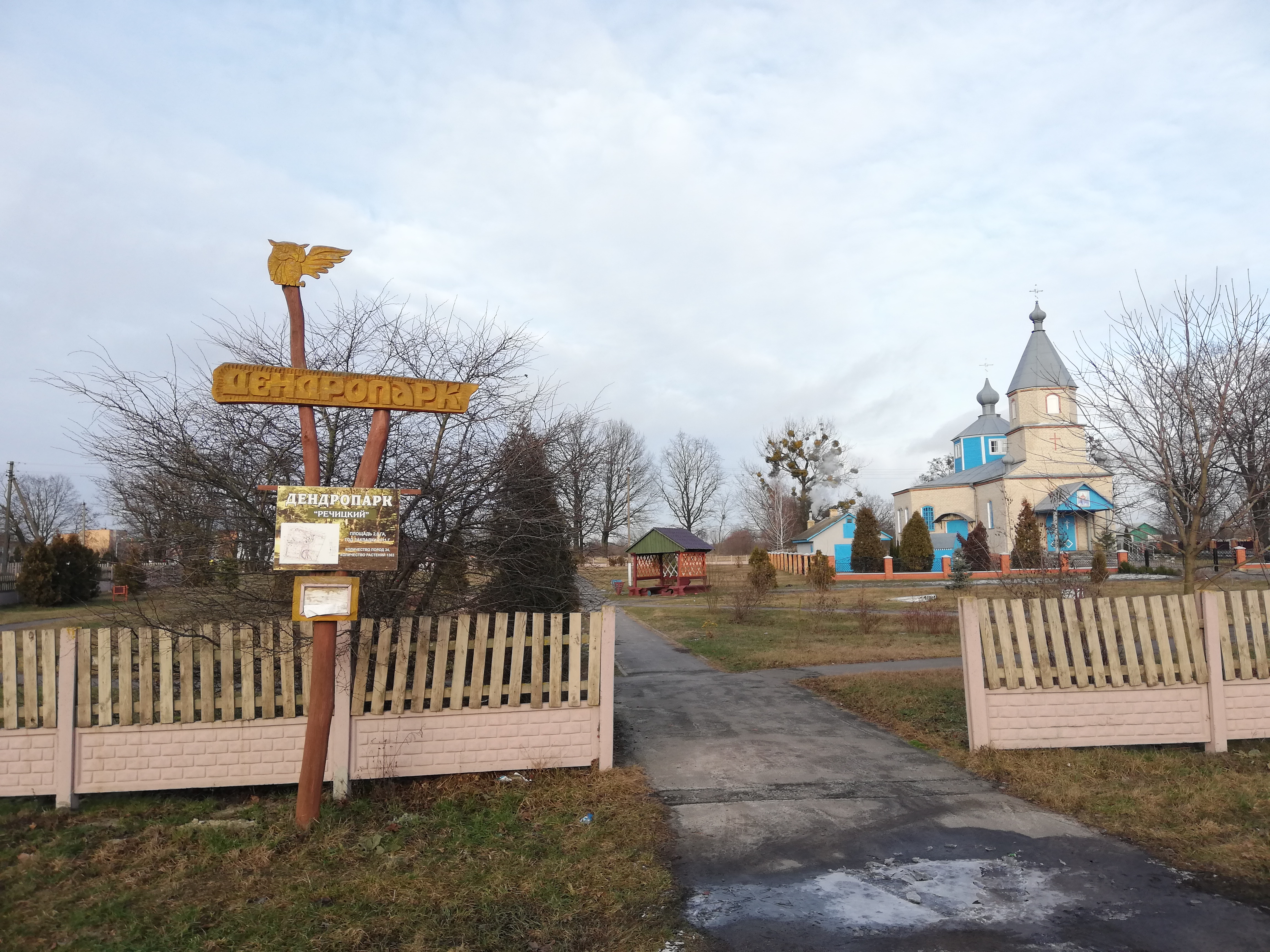 Rečyca, Stolin District.